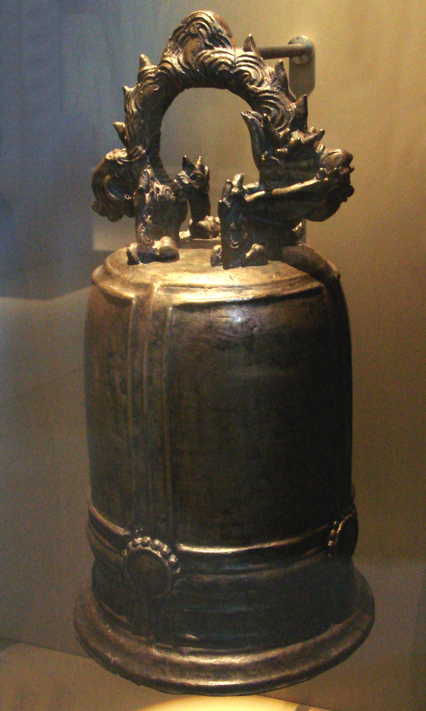 Pagoda_bell_from_the_siege_of_Tuyen_Quang